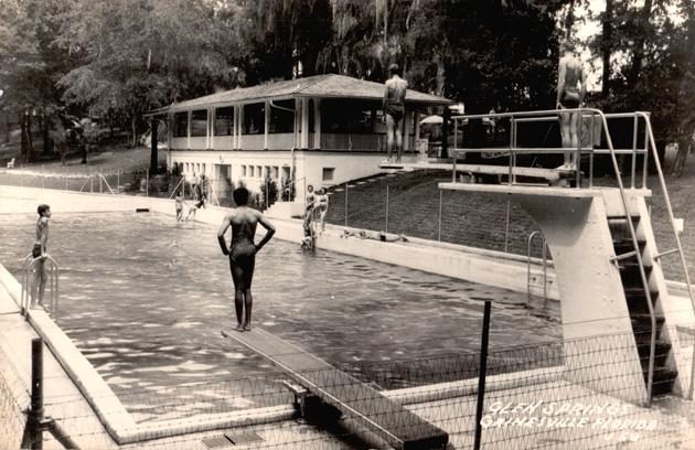 1959 postcard image of Glen Springs pool and poolhouse showing diving boards